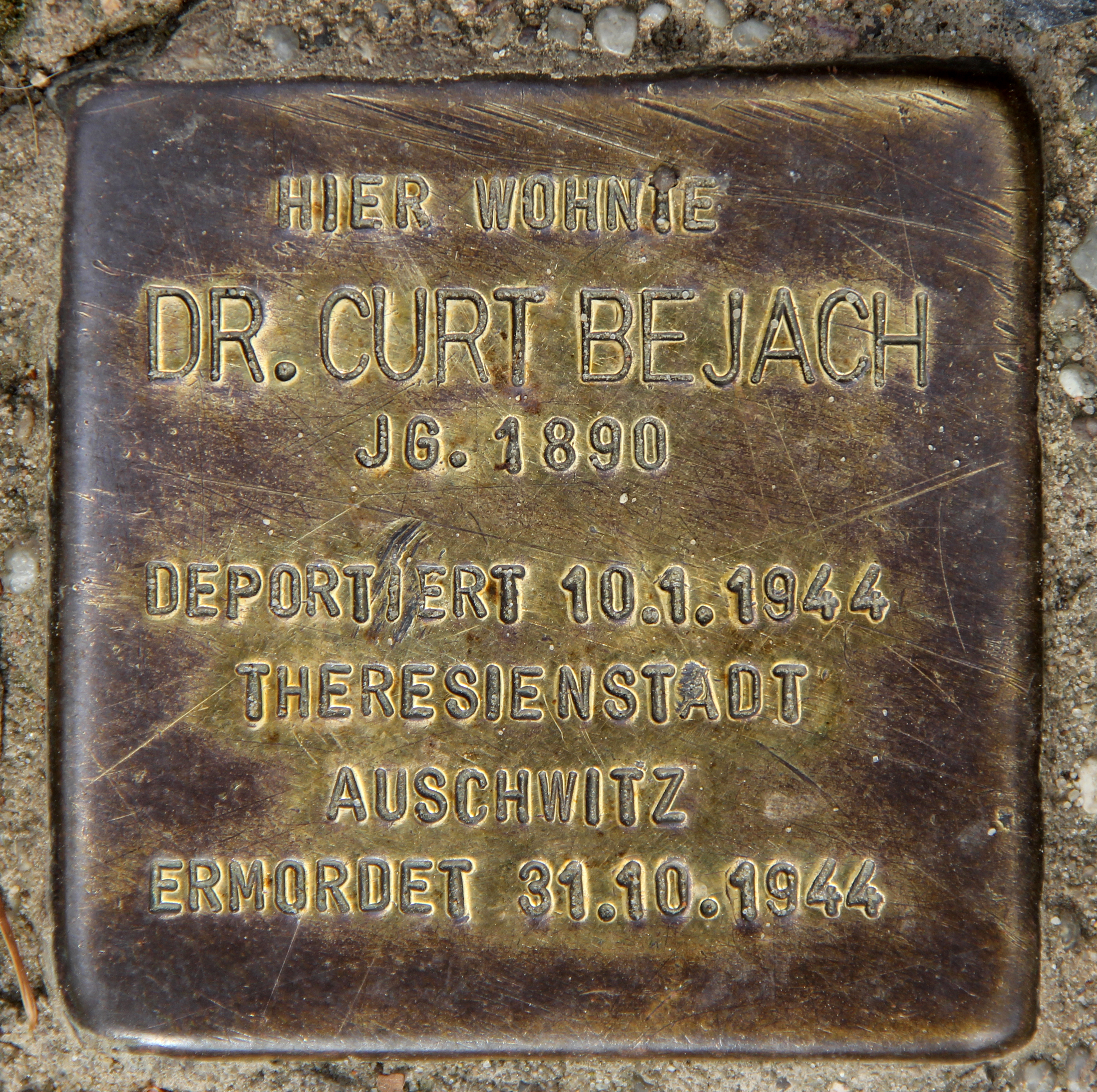 "Stolperstein" (stumbling block), Curt Bejach, Bernhard-Beyer-Straße 12, Berlin-Wannsee, Germany